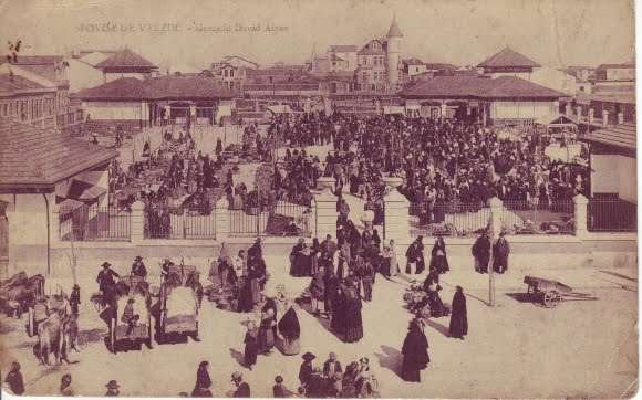 Povoa de Varzim Marketsquare (Praça) in 1909